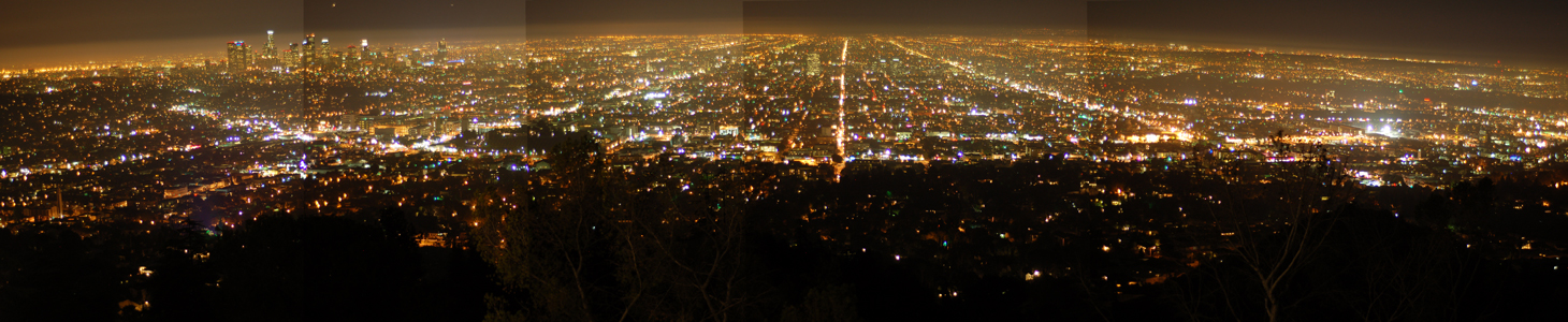 Los Angeles at night, as seen from the Griffith Observatory. This stitched panorama shows downtown Los Angeles to the left.